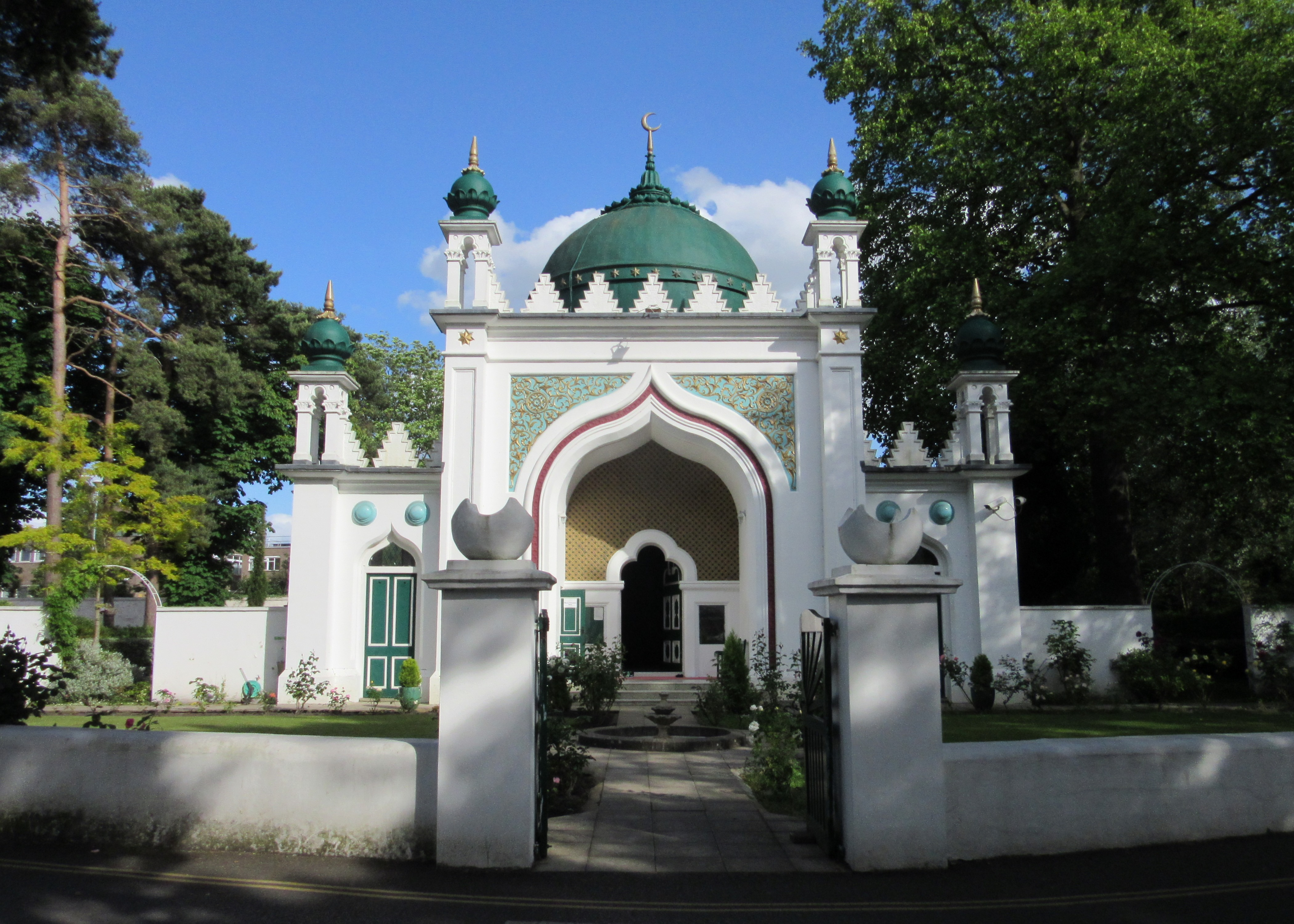 Shah Jahan Mosque, Oriental Road, Maybury, Borough of Woking, Surrey, England.